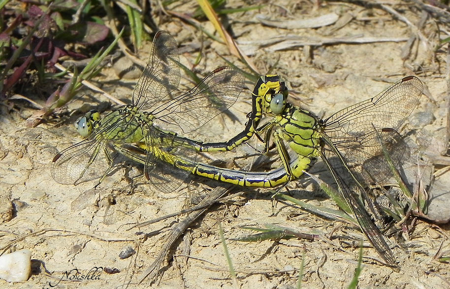 Gomphus pulchellus, wheel Western Clubtail